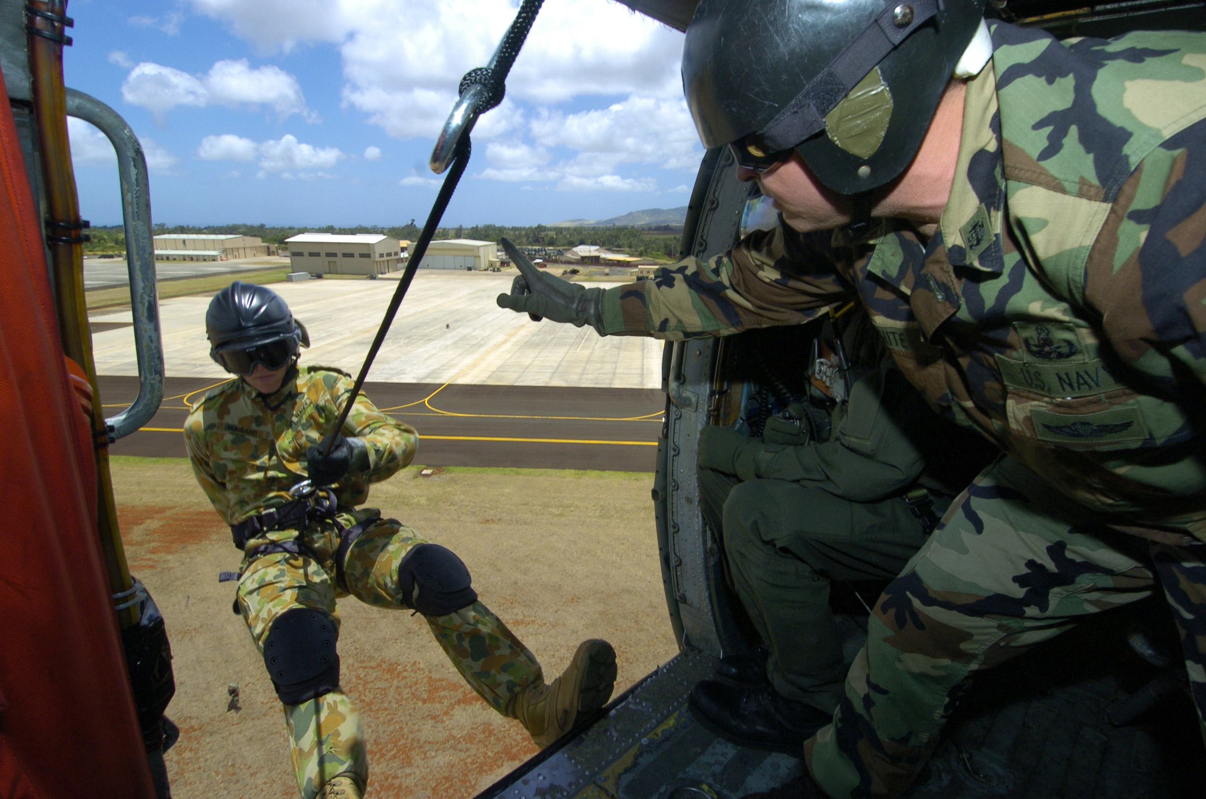 U.S. Navy Chief Lyle White, right, signals to Able Seaman Adam Hubbard of Australia's Clearance Diving Team One as Hubbard prepares to repel from a HH-60H Seahawk helicopter during helicopter rope suspension techniques training as part of exercise Rim of the Pacific (RIMPAC) at Wheeler Army Airfield, Hawaii, July 8, 2006. RIMPAC brings together military forces from Australia, Canada, Chile, Peru, Japan, the Republic of Korea, the United Kingdom and the United States in the world's largest biennial maritime exercise. White is a master explosive ordnance disposalman from Explosive Ordnance Disposal Group One.